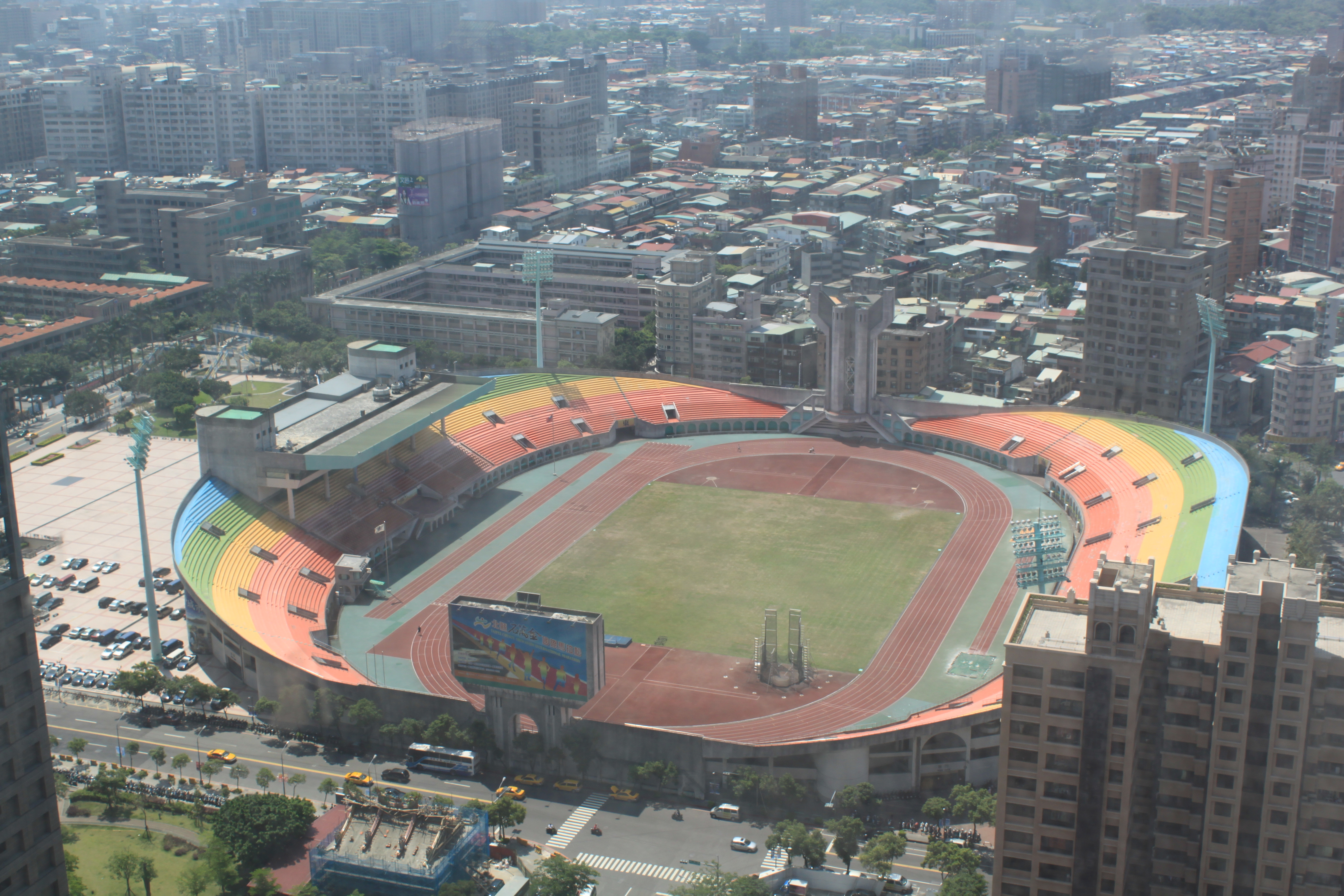 Banqiao First Sports Ground